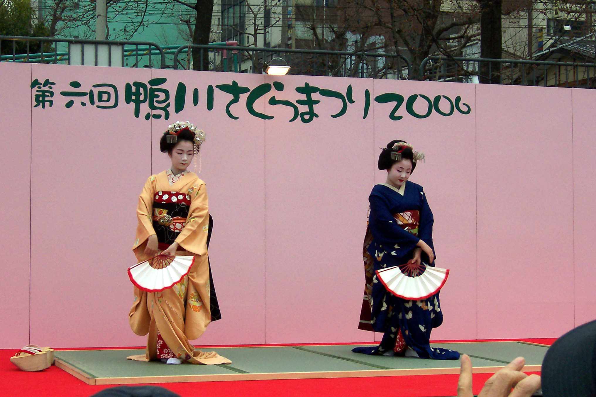 Two maiko, Kanoaki (in yellow) and Sonoka (in blue), performing a dance during the Kamogawa matsuri